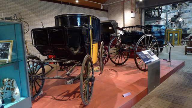 Part of the Mossman Collection (3). See 1548300 for more detail.